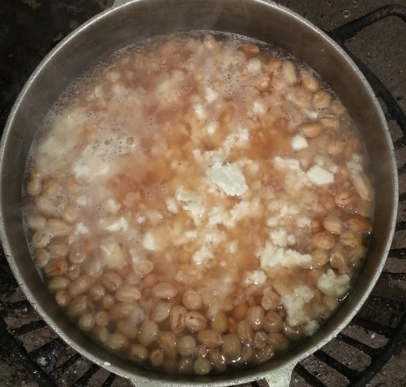 preparation de la bouillie Mbouata